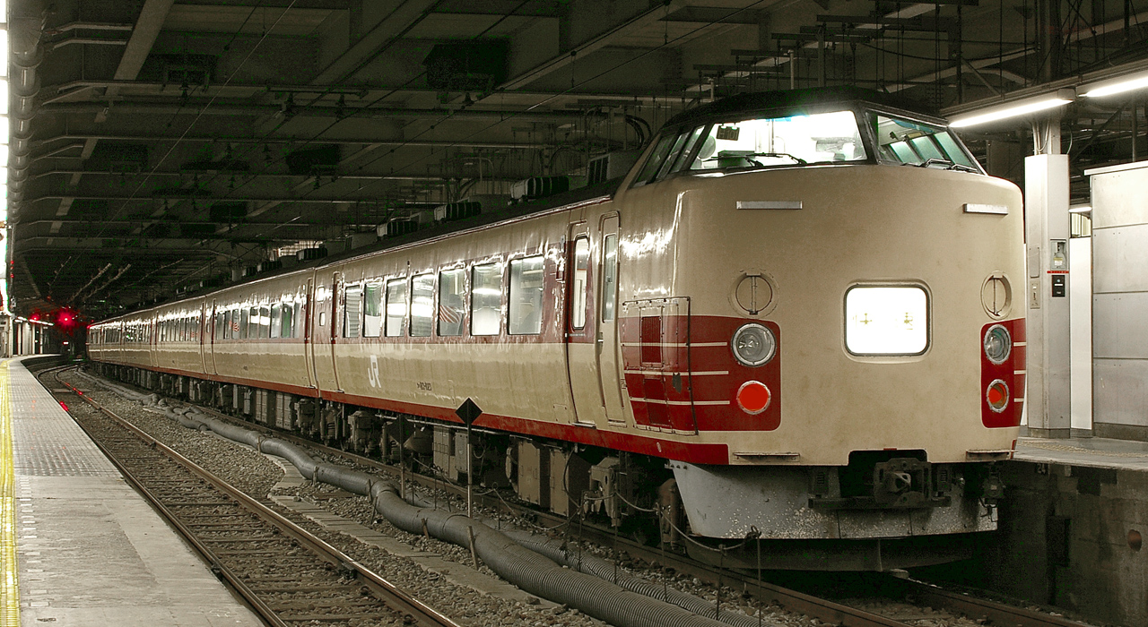 A JR East 183/189 series EMU on the Moonlight Nagara 91 overnight service at Shinagawa Station